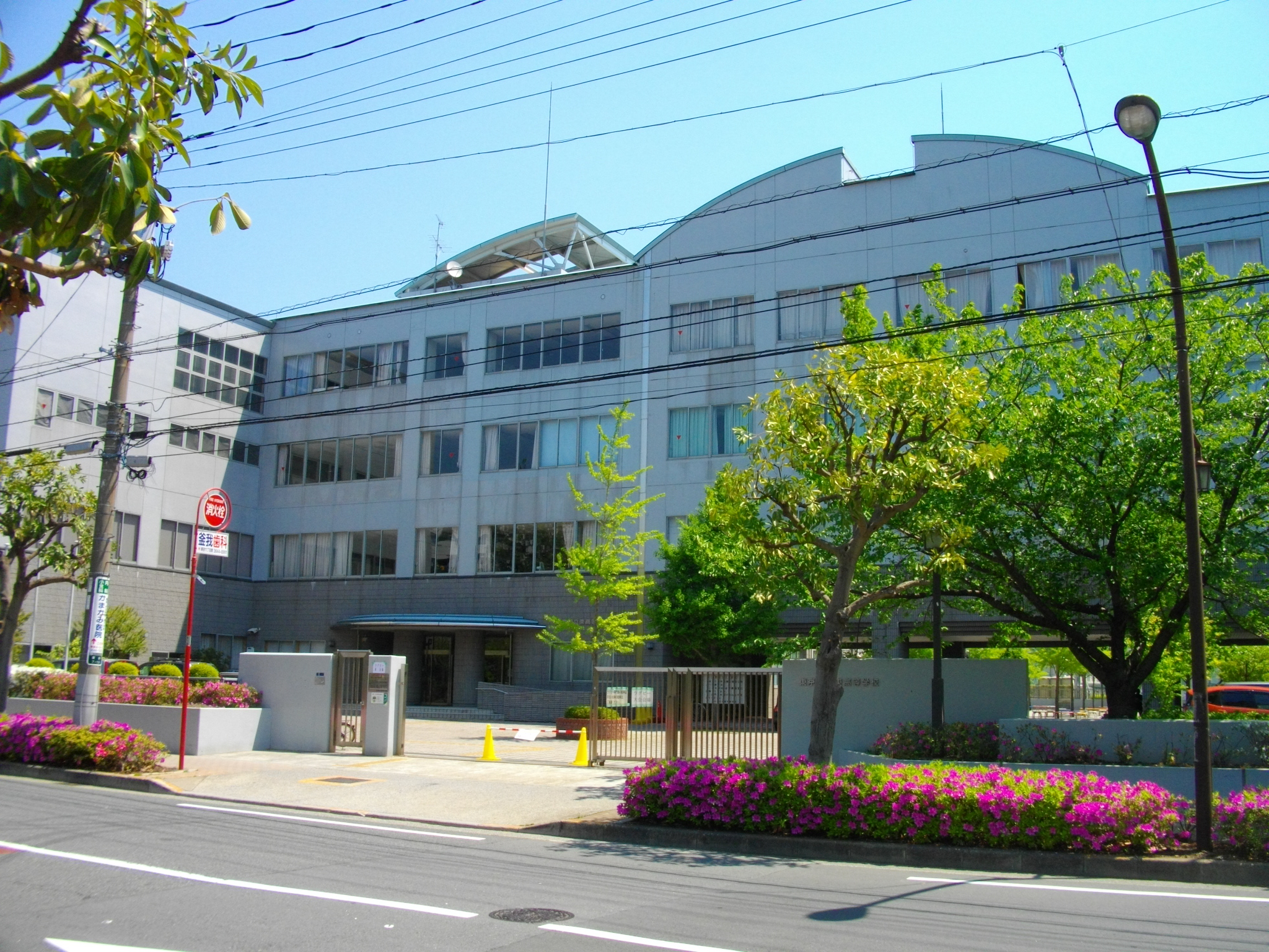 Tokyo Metropolitan Higashi High School